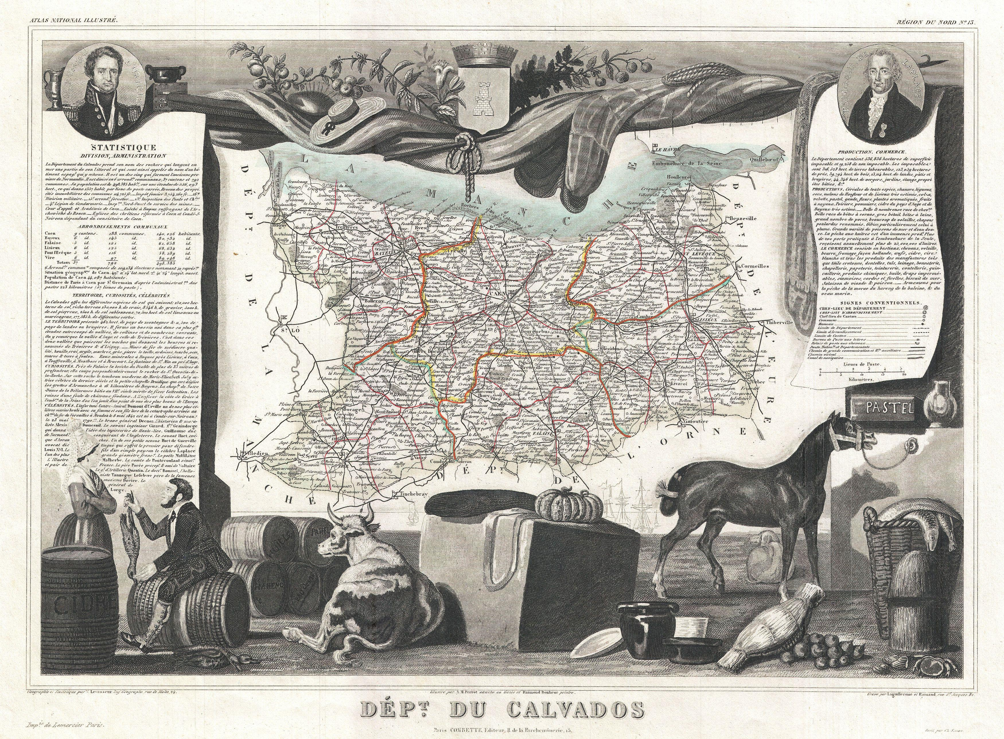 This is a fascinating 1857 map of the French department of Calvados, France. This area of France is known for its production of Calvados, the world's fines apple brandy. The whole is surrounded by elaborate decorative engravings designed to illustrate both the natural beauty and trade richness of the land. There is a short textual history of the regions depicted on both the left and right sides of the map. Published by V. Levasseur in the 1852 edition of his Atlas National de la France Illustree.